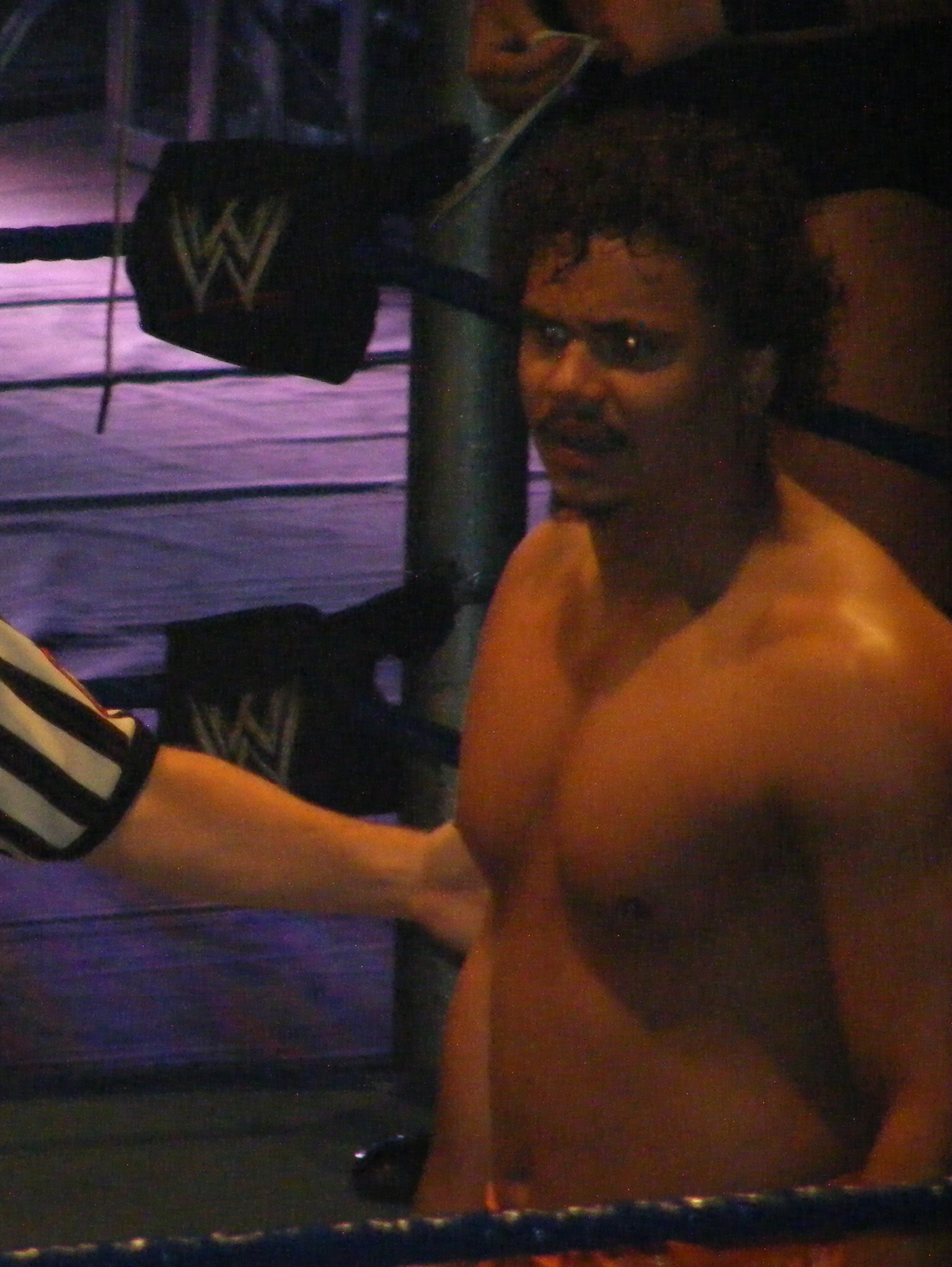 A cropped version of File:Primo Colón and Charles Robinson.jpg to get a better view of professional wrestler Primo Colón (real name Eddie Colón). The original was taken at a World Wrestling Entertainment live event on February 28, 2009.